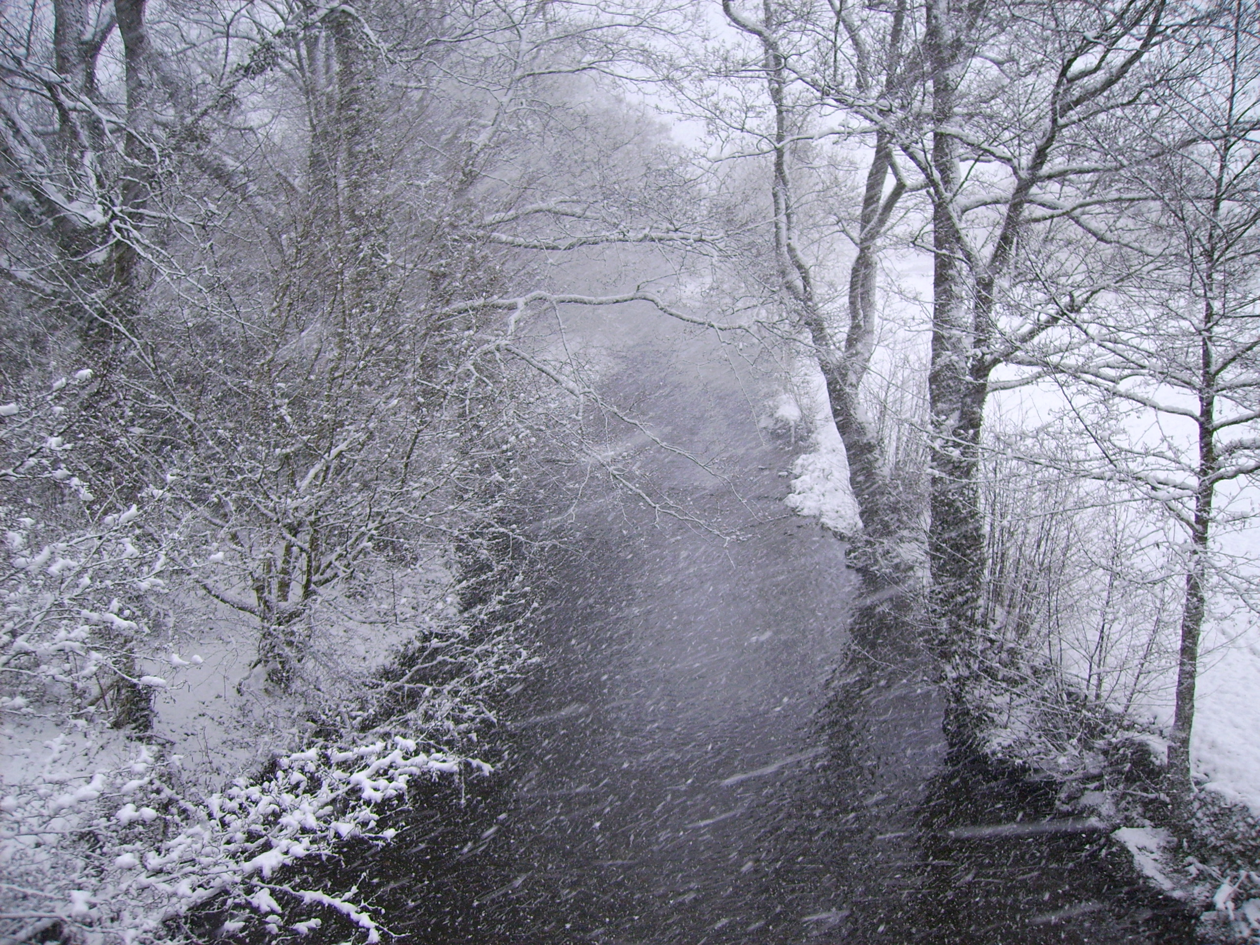 The River Ely at Llantrisant, Running through the Royal Glamorgan Hotel. In snow.